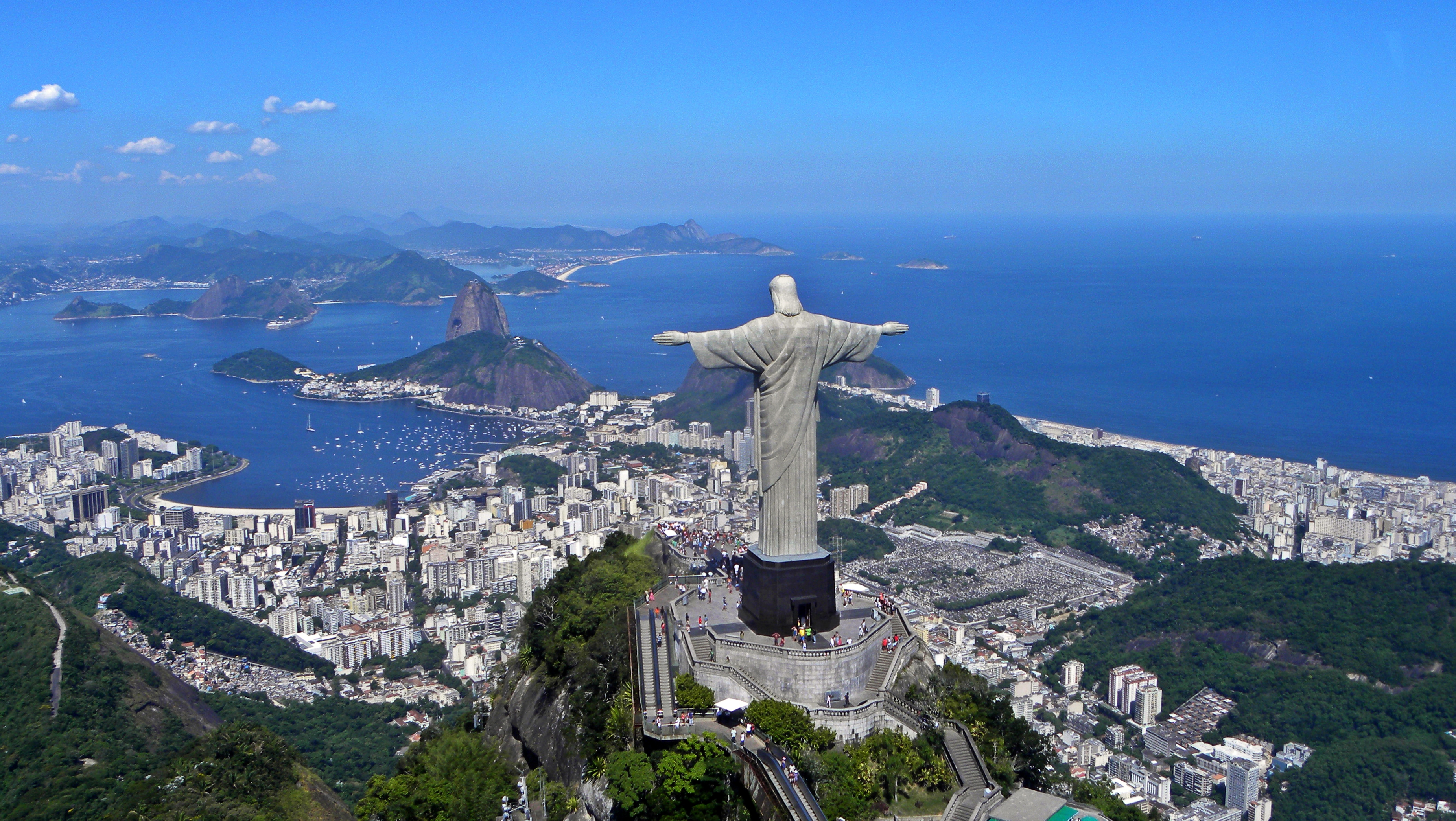 Christ the Redeemer overlooking Rio De Janeiro